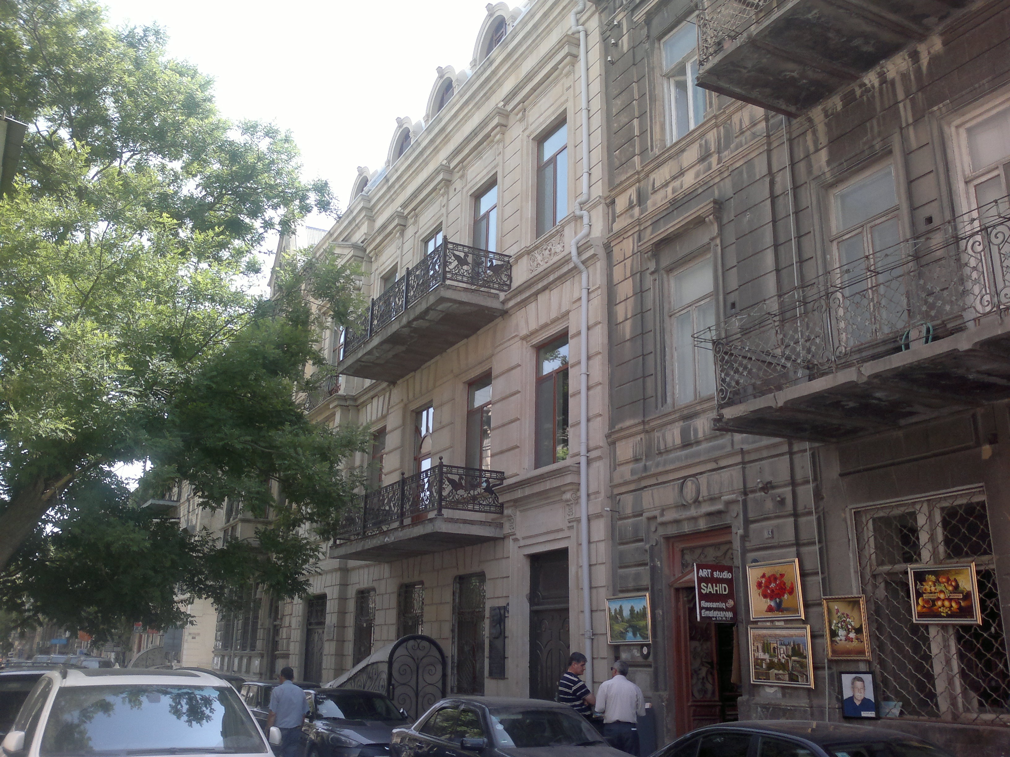 Building in Baku where Ahmad bay Omar oglu Pepinov (from 1918 till 1931) and Aga Huseun Ali oglu Razulzade (from 1931 till 1937) lived